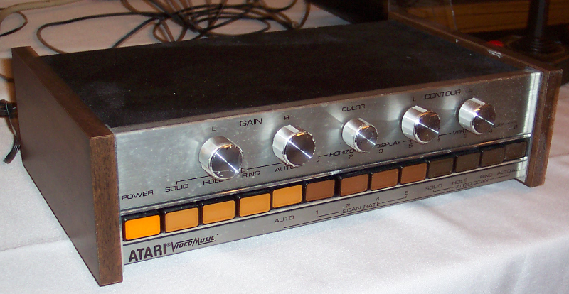 Taken from my personal collection of photos of my displays from the 2008 Midwest Gaming Classic. This photo is free to use as long as credits to Martin Goldberg and/or Electronic Entertainment Museum (E2M), are maintained.